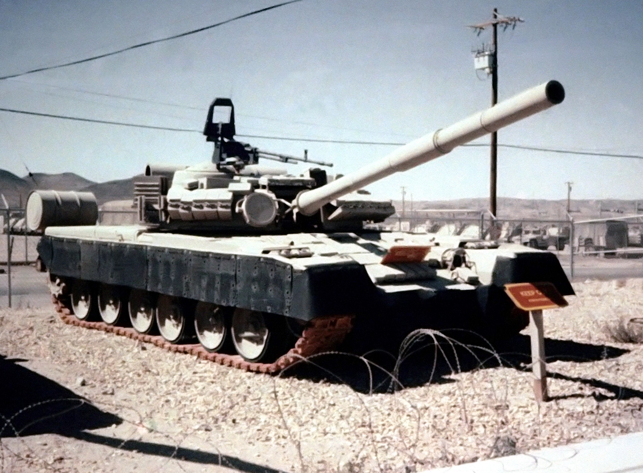 Right front view, on display, Soviet T-80 Main Battle Tank mock-up. This is actually a converted T-72 tank.